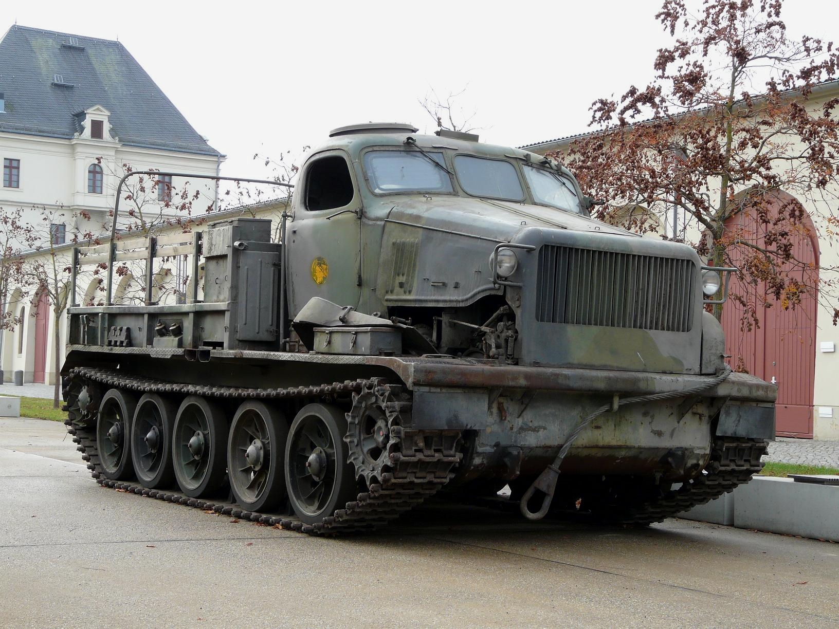 AT-T heavy artillery tractor of the National People's Army in the Bundeswehr Military History Museum in Dresden.